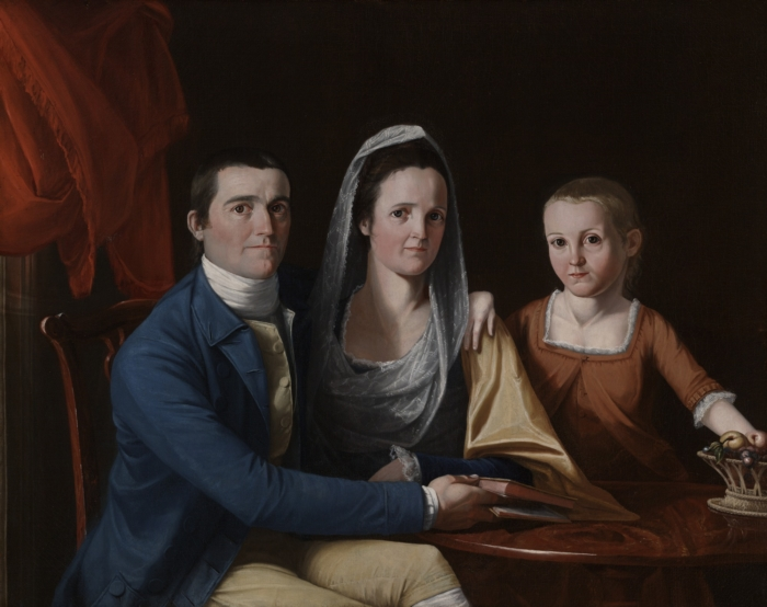 "Jonathan Trumbull, Jr. (1740-1809) with Mrs. Trumbull (Eunice Backus) (1749-1826) and Faith Trumbull (1769-1846)," oil on canvas, by the American artist John Trumbull. 38 in. x 48 in. Yale University Art Gallery, gift of Miss Henrietta Hubbard. Courtesy of Yale University, New Haven, Conn.